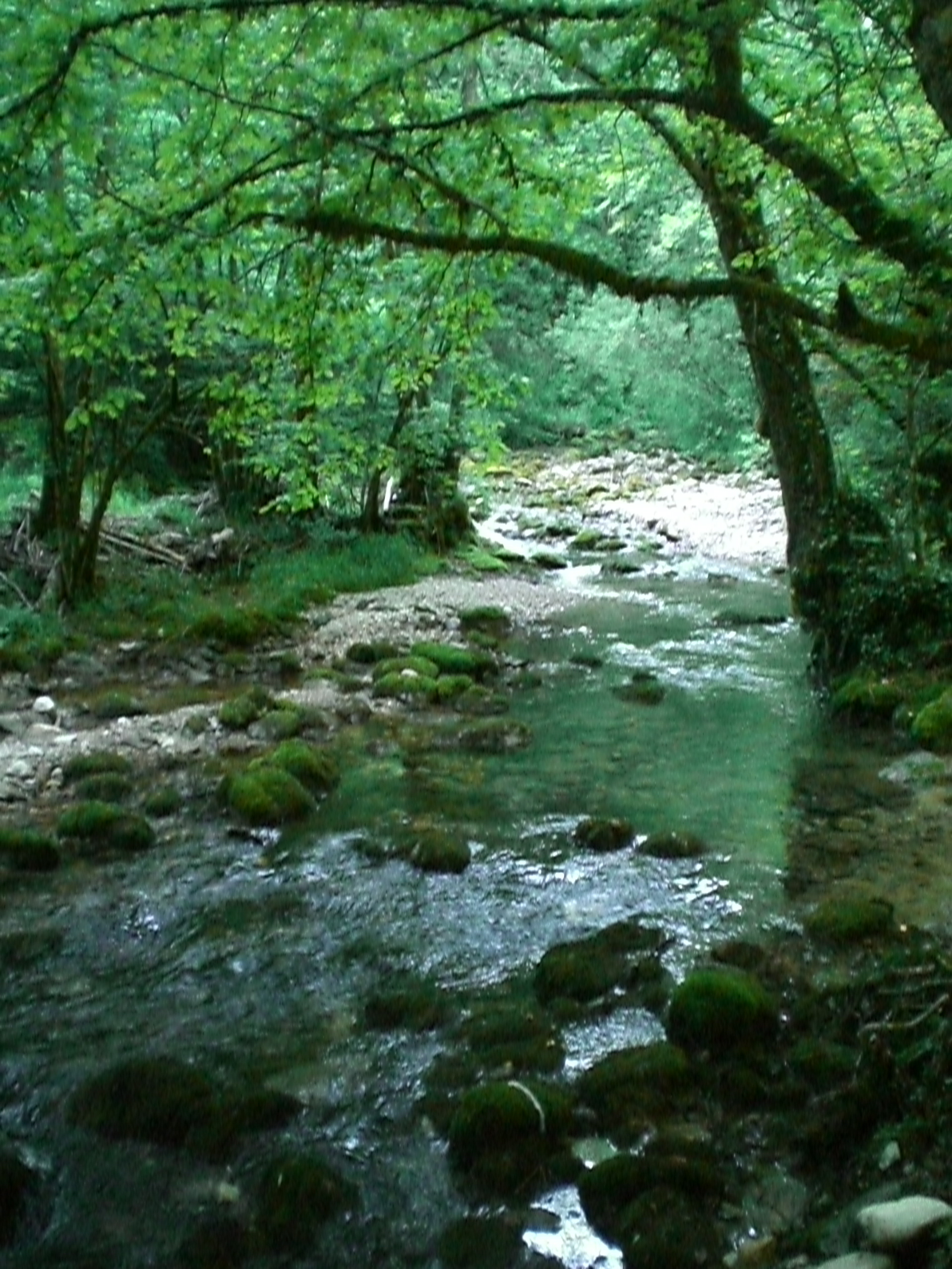 Riparian forest of Allondon in Echenevex